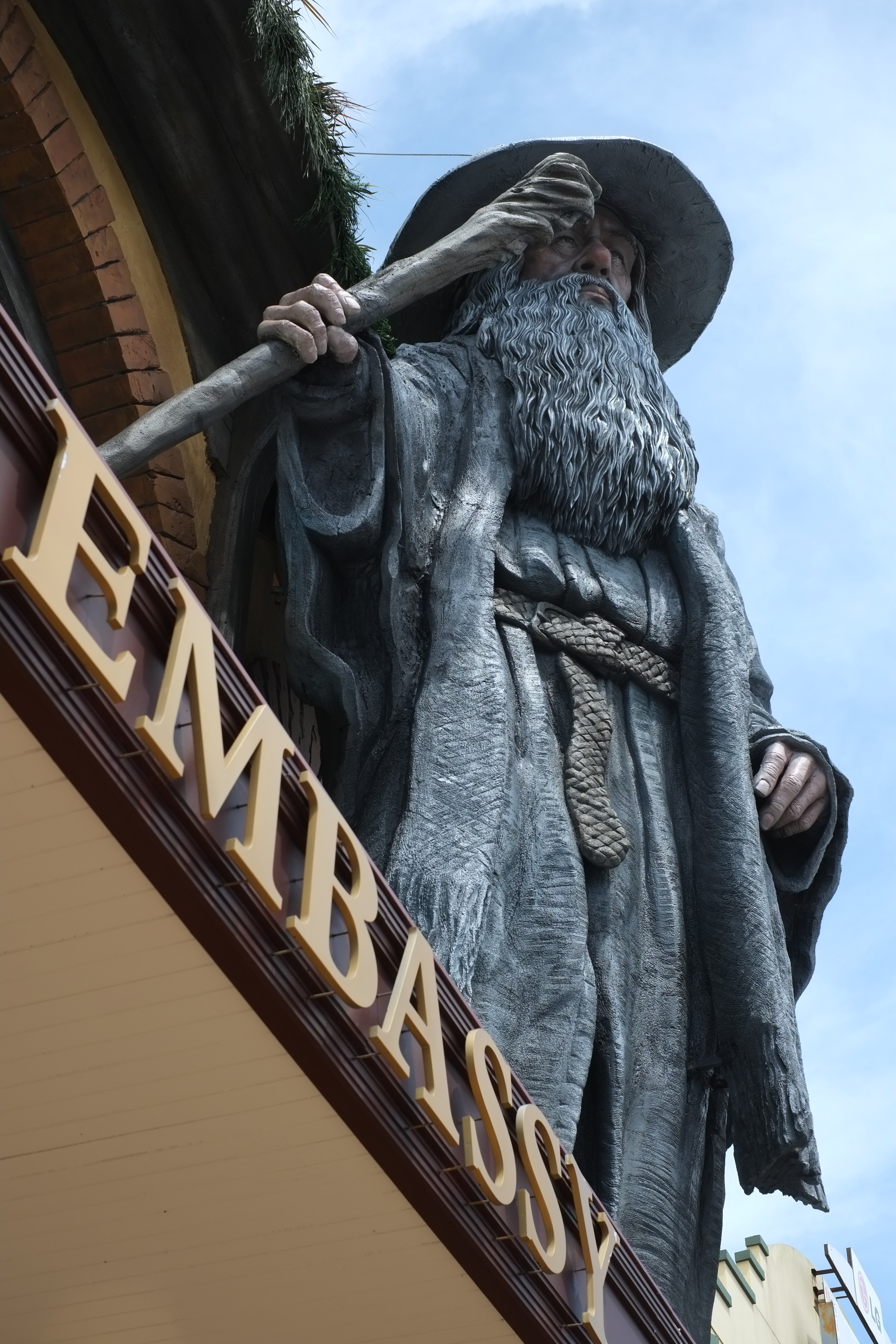 Gandalf sculpture on top of The Embassy Theatre, Wellington